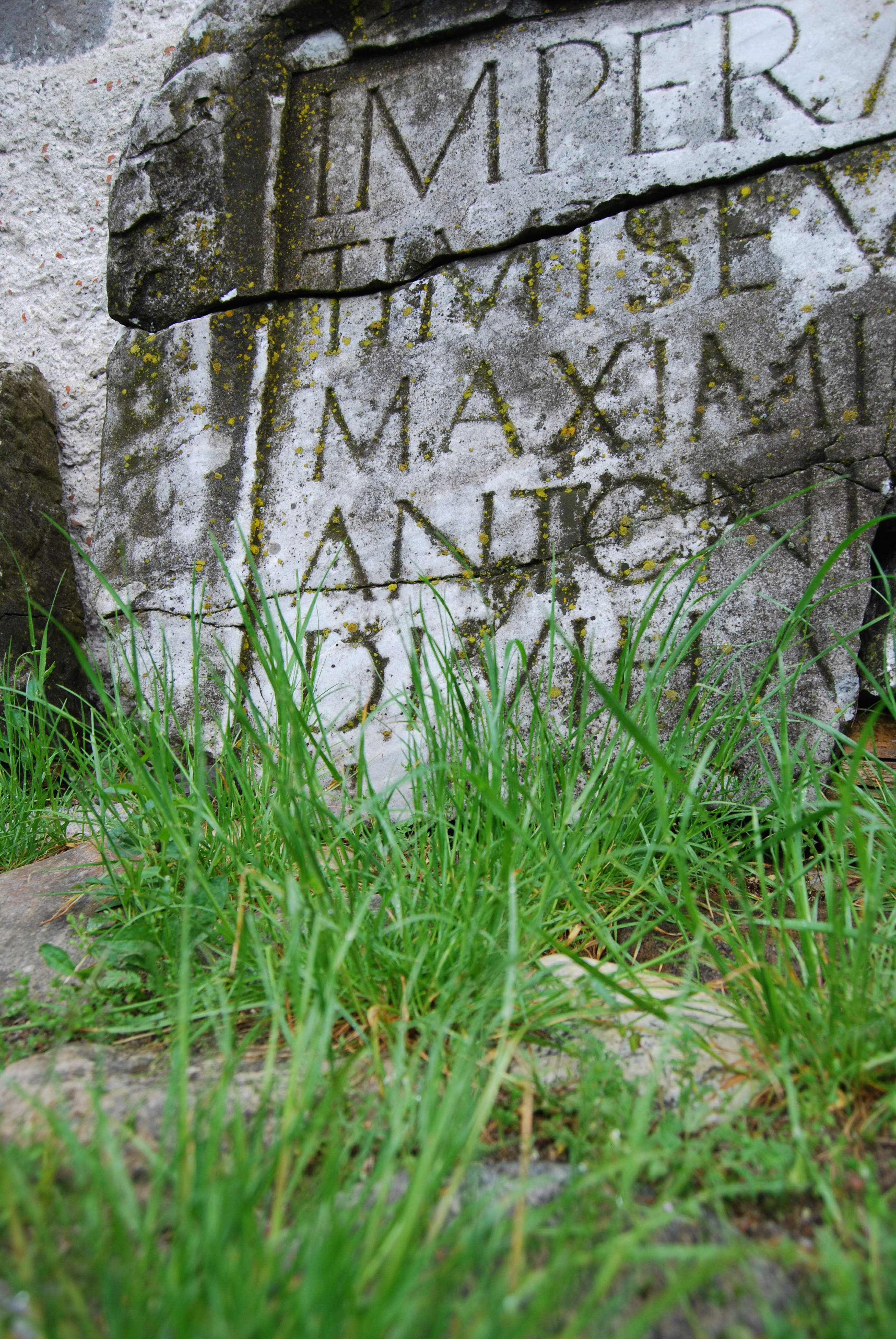 Roman incsription near Densus Church. CIL III 1453: Imperat[ori Caesari Imp(eratoris) Caes(aris) Lu(ci) Sep]/timi Sever[i Pii Pert(inacis) Aug(usti) Arab(ici) Adiab(enici) Parthici] / maximi pon[tif(icis) max(imi) patris patriae f(ilio) divi M(arci)] / Antonini Pi[i Germ(anici) Sarm(atici) nep(oti) divi Antonini Pii pronep(oti)] / divi Hadria[ni abnep(oti) divi Traiani Parth(ici) et divi Nervae abnep(oti)] / Marco Au[relio Antonino Augusto] / colonia U[lpia Traiana Aug(usta) Dacica Sarmiz(egetusa)]